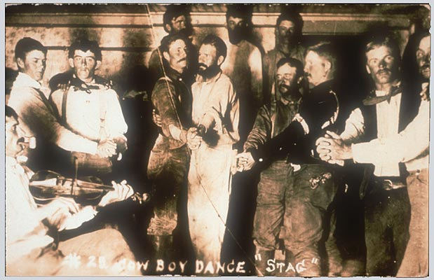 PHOTOGRAPHER UNKNOWN, SUBJECTS UNKNOWN, GELATIN SILVER PRINT, REAL PHOTO POSTCARD (3 1/2 X 5 1/2"), C. 1910. INSCRIPTION IN THE NEGATIVE READS: #28. COWBOY 'DANCE STAG'." POSTMARKED ON VERSO: "WINNER, S. DAK., OCT 20, [ILLEG.]"